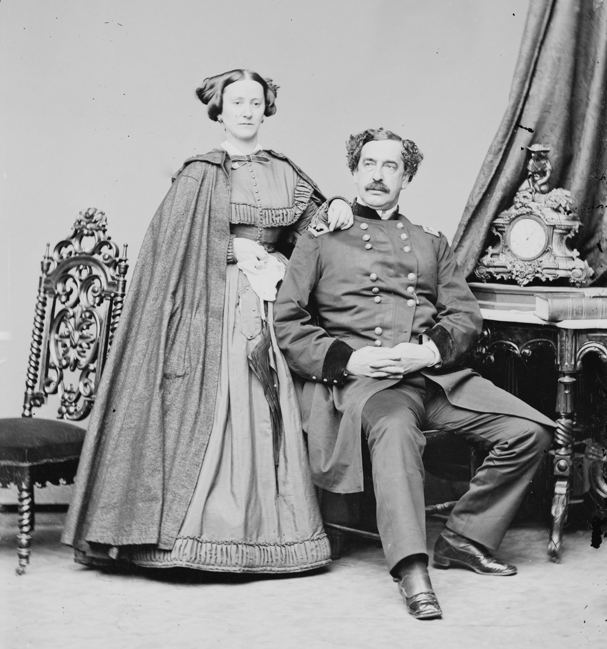 Major General Abner Doubleday and his wife